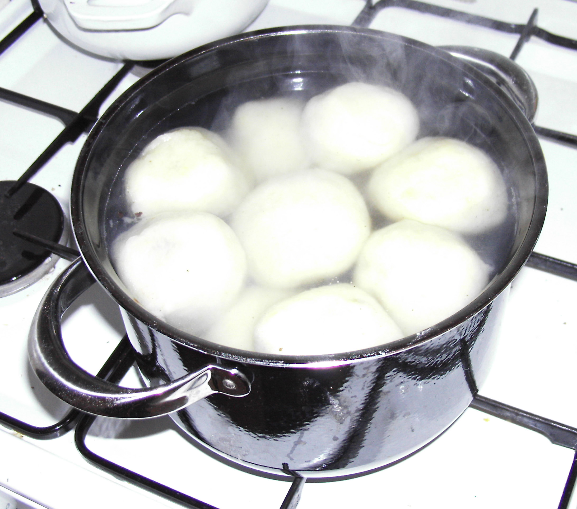 Potato dumplings in a pot with simmering water